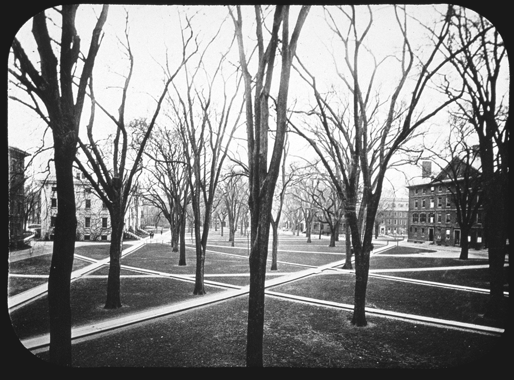 Photo of the Harvard Yard in 1905 from the Library of Congress web site